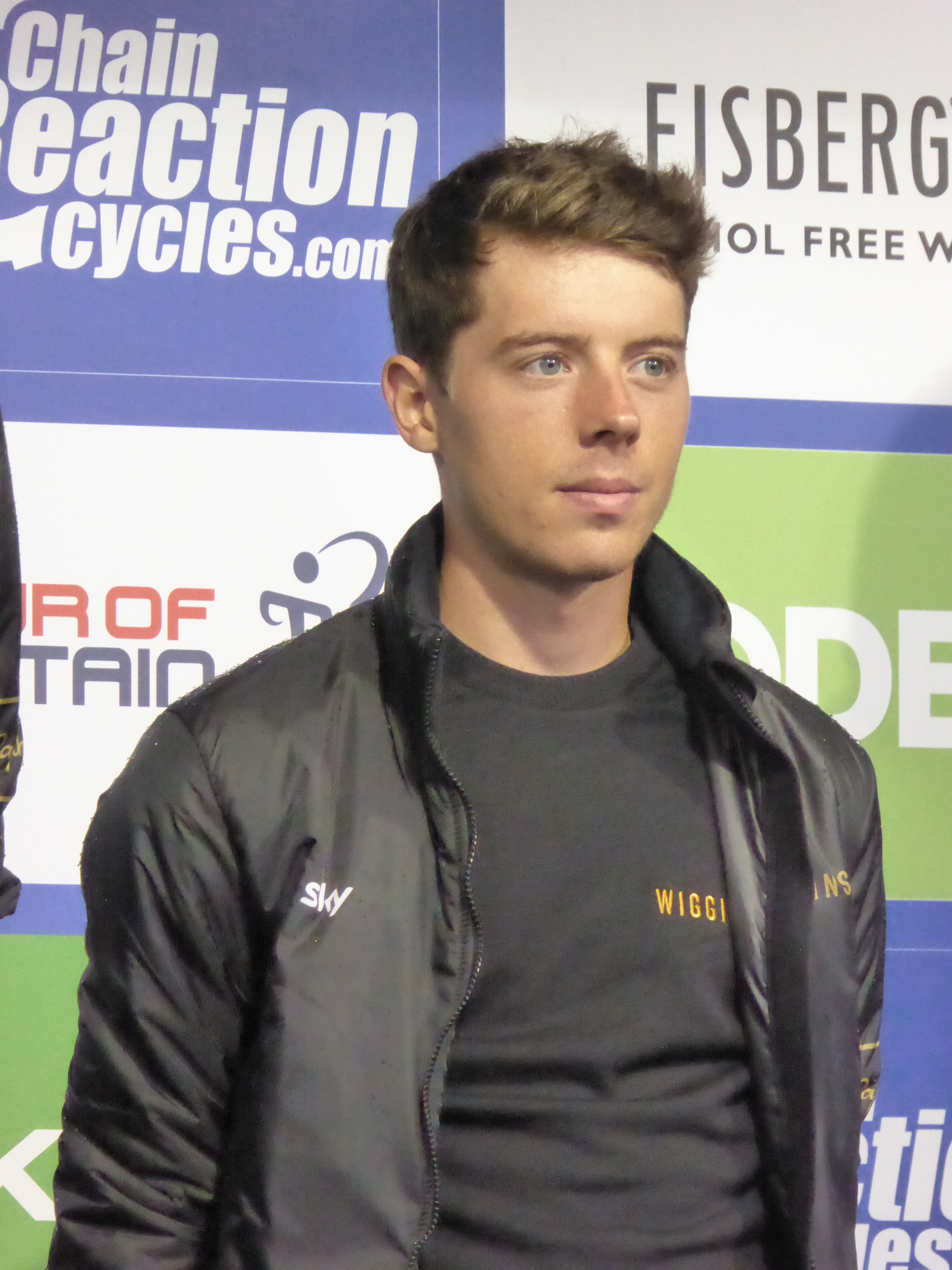 Daniel Pearson (WIGGINS), pictured at the 2016 Tour of Britain team presentation in Glasgow on 3 September 2016.